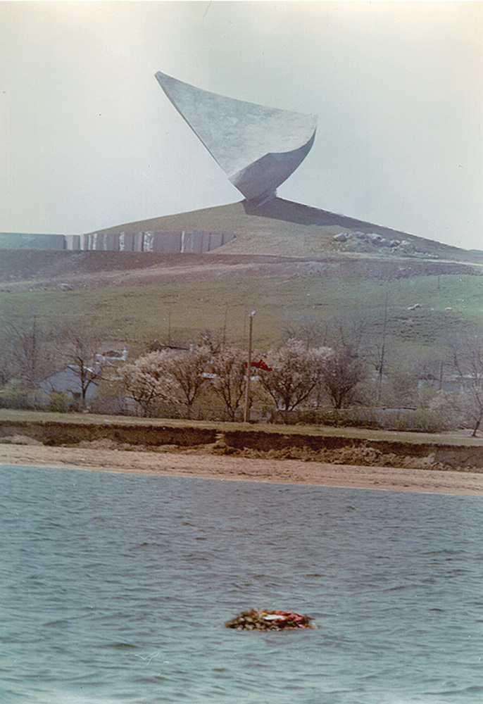 "The Sail" memorial, view from the side of the Kerch Strait.